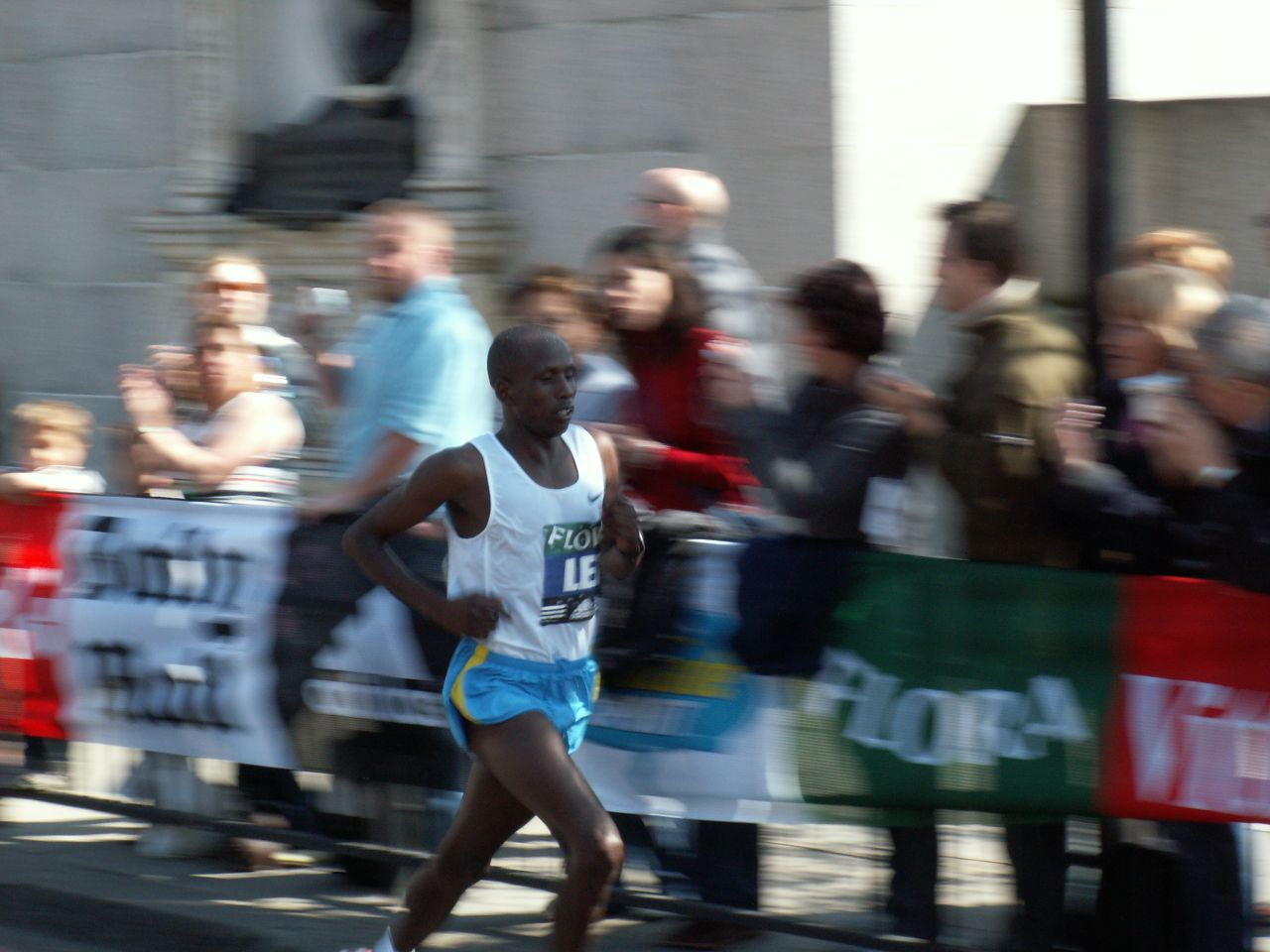 Martin Lel sprints past to take the mens title.